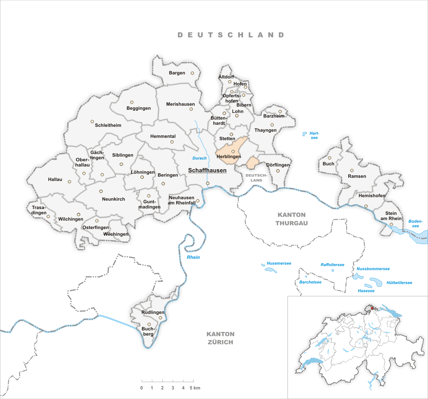 Municipality Herblingen Artist: Tschubby